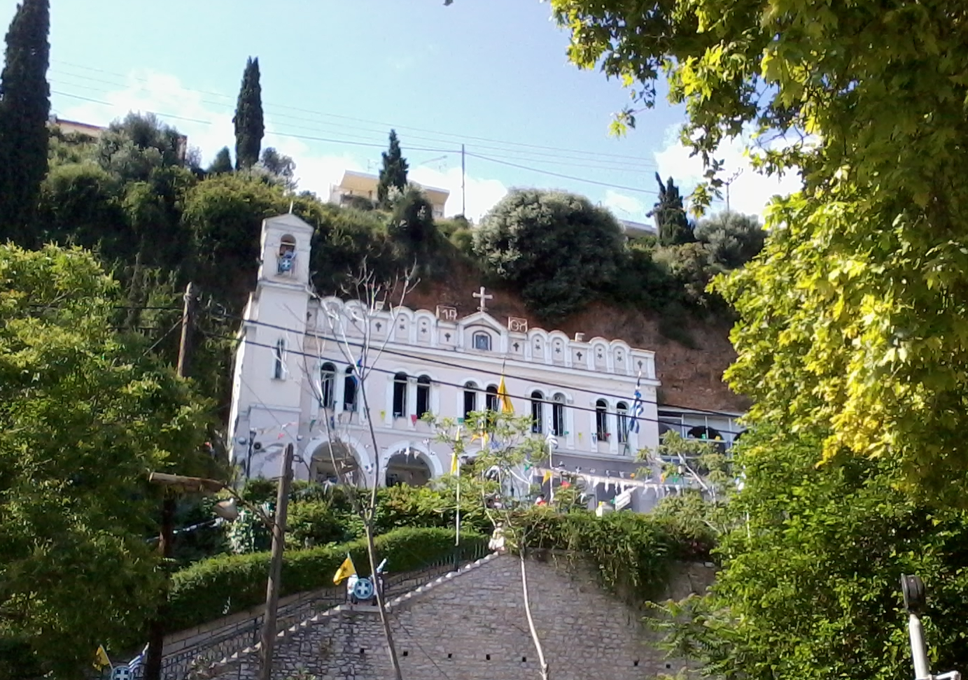 The sacred shrine of Panagia Tripiti as seen from the coastal road of Aigio.